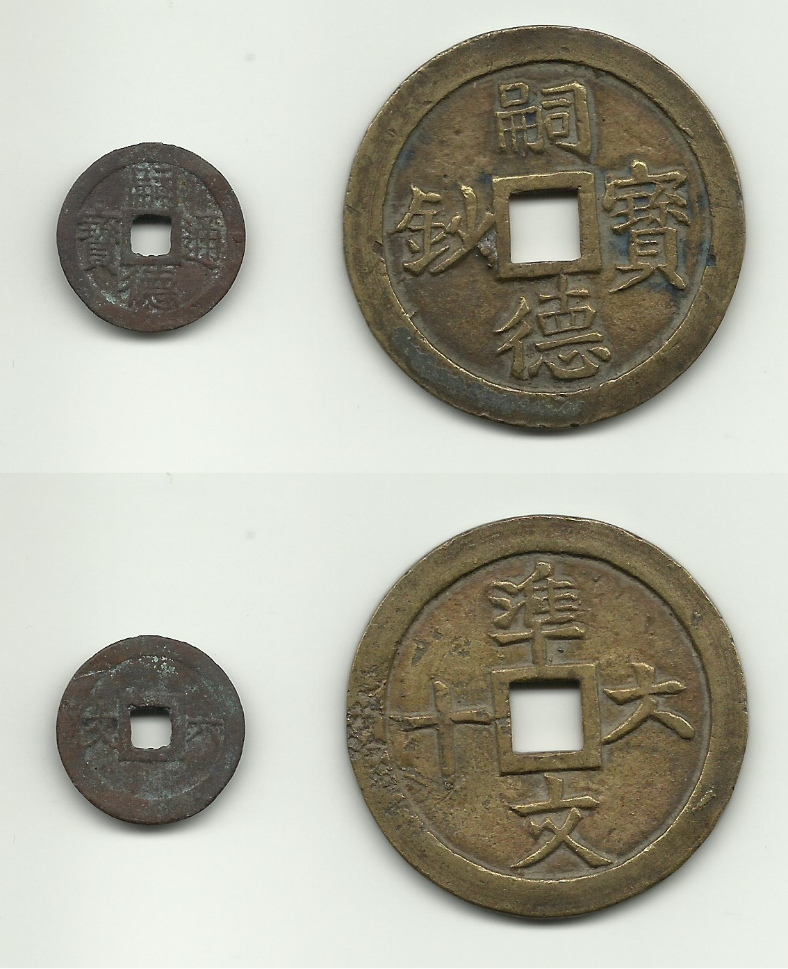 A Tự Đức Bảo Sao (嗣德寶鈔) cash coin produced under the reign of the Tự Đức Emperor of the Nguyễn Dynasty.